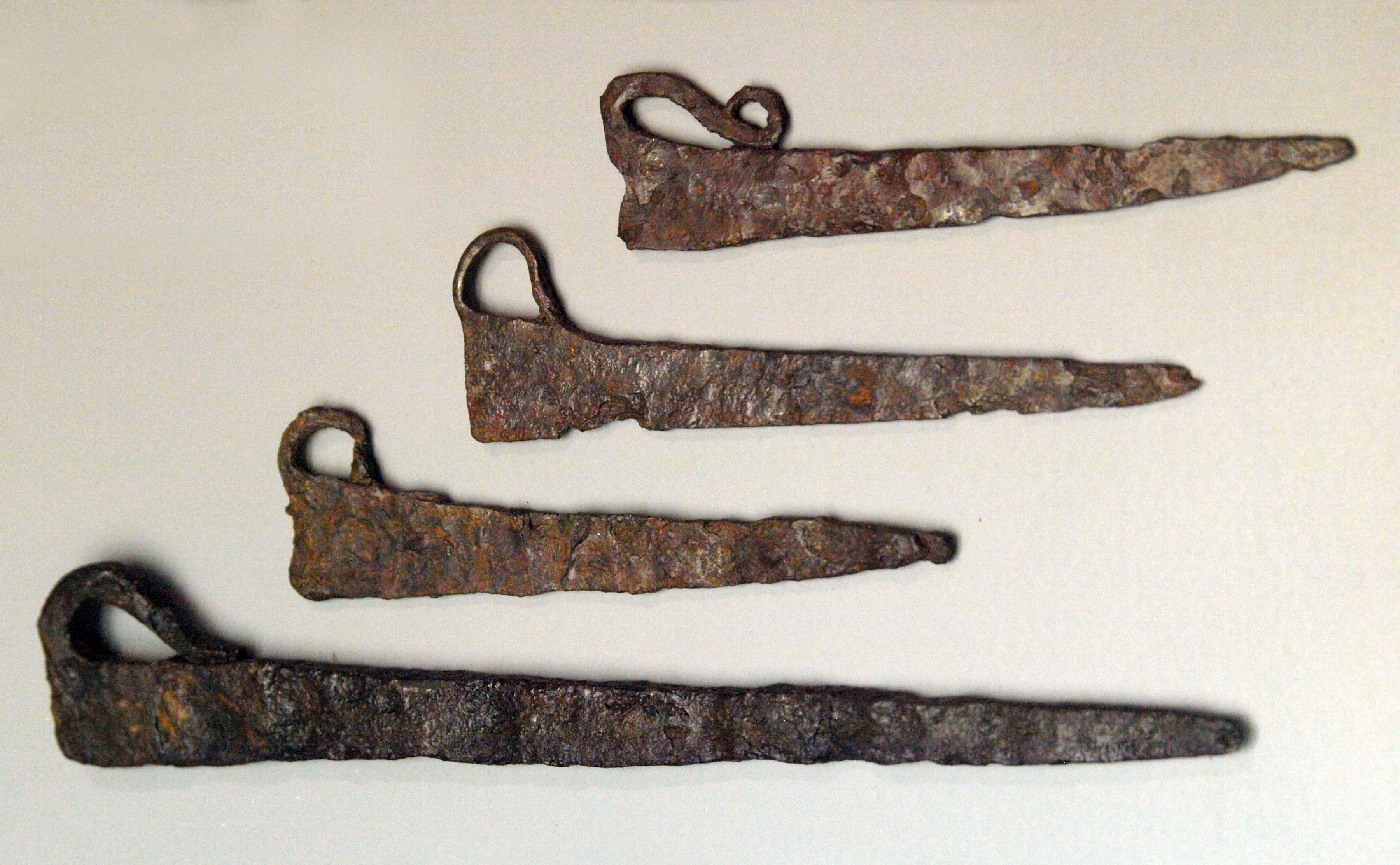 Ancient roman iron tent pegs from castle Künzing Quintanis / Quintana (Germany), dated 2nd/3rd century AD. Photographed at Niederbayrisches Archäologiemuseum in Landau an der Isar, Germany.